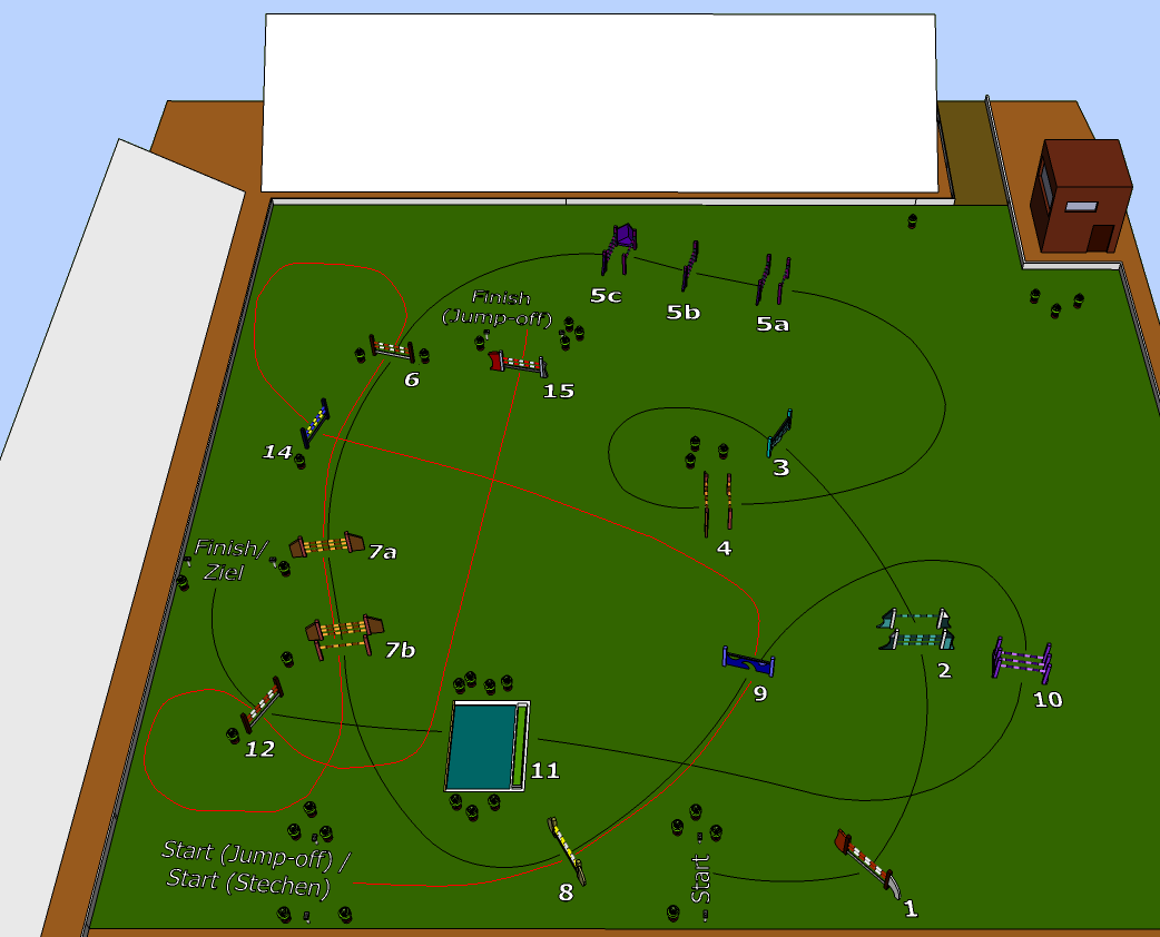 show jumping: example of a competion with jump-off (3D version). Created with Google SketchUp 8, exported as PNG, reworked with Paint